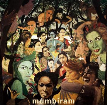 Oil Painting by Artist Mumbiram of India based on a Sanskrit verse of the Shrimad Bhagavatam, tenth Canto. This work has the mood that transcends mere cultural variety and puts the viewer on the sublime plane of a universal aesthetic.